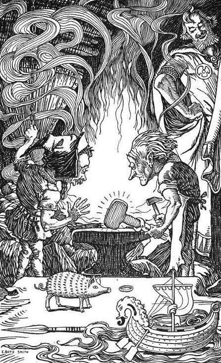 "The third gift — an enormous hammer" by Elmer Boyd Smith. The dwarven sons of Sons of Ivaldi forge the hammer Mjolnir for the god Thor while Loki watches on. On the table before them sits their other creations: the multiplying ring Draupnir, the boar Gullinbursti, the ship Skíðblaðnir, the spear Gungnir, and golden hair for the goddess Sif.